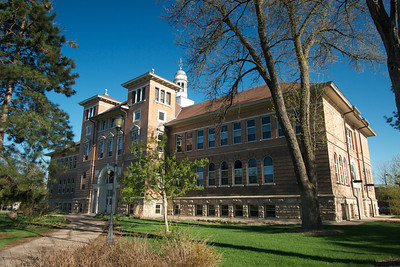 Old Main